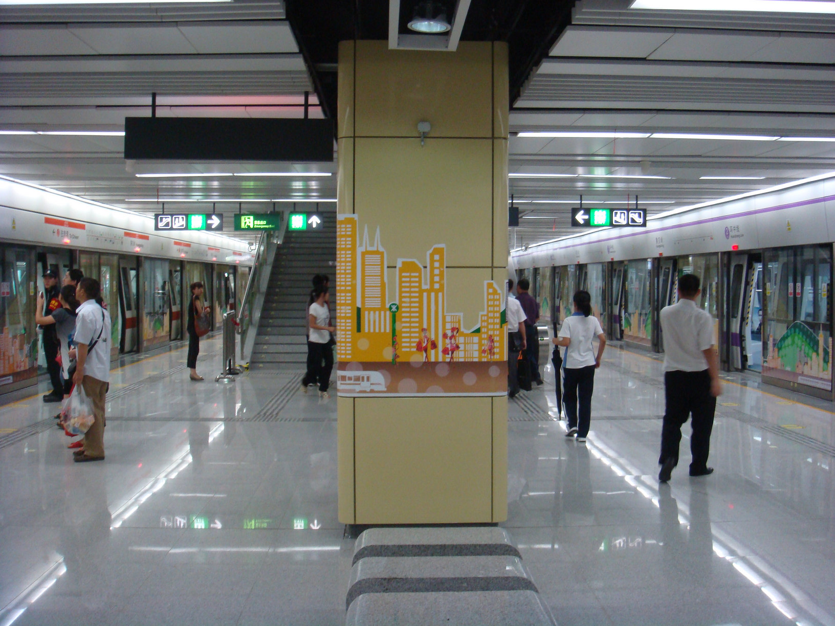 Huangbeiling Station ,the interchange station of Shekou Line and Huanzhong Line, Shenzhen Metro.The station offers a cross platform transfer between Shekou Line (left) and Huanzhong Line (right).